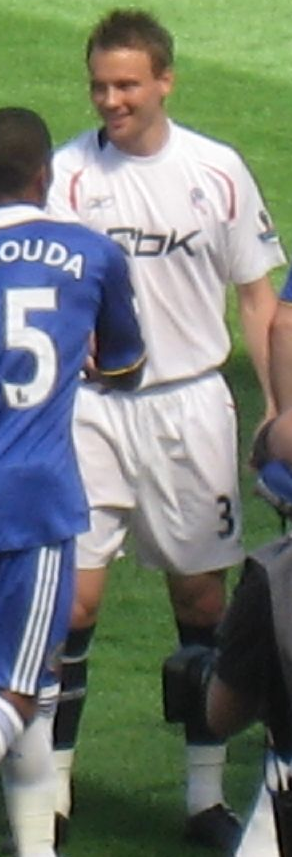 Matthew Taylor. Image cropped from original at flickr.